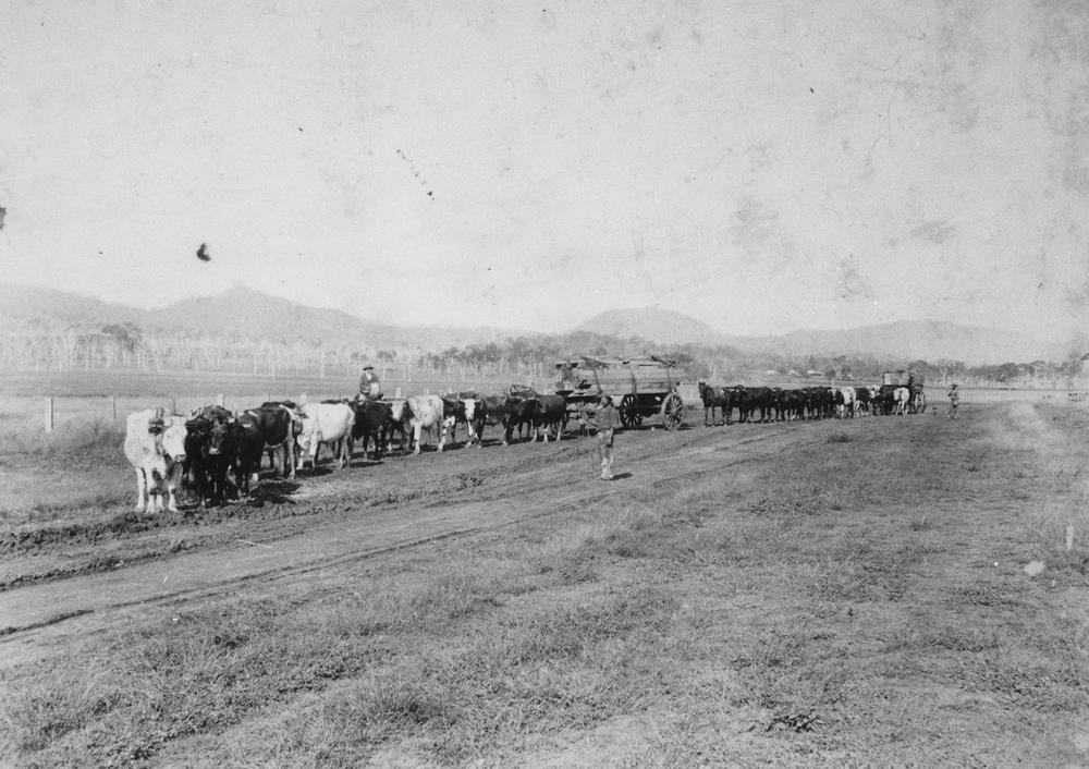 Bullock teams hauling timber to the railway at Christmas Creek ca. 1910. Timber-getters using bullock teams to transport timber at Christmas Creek, near the Beaudesert railways, ca. 1910.